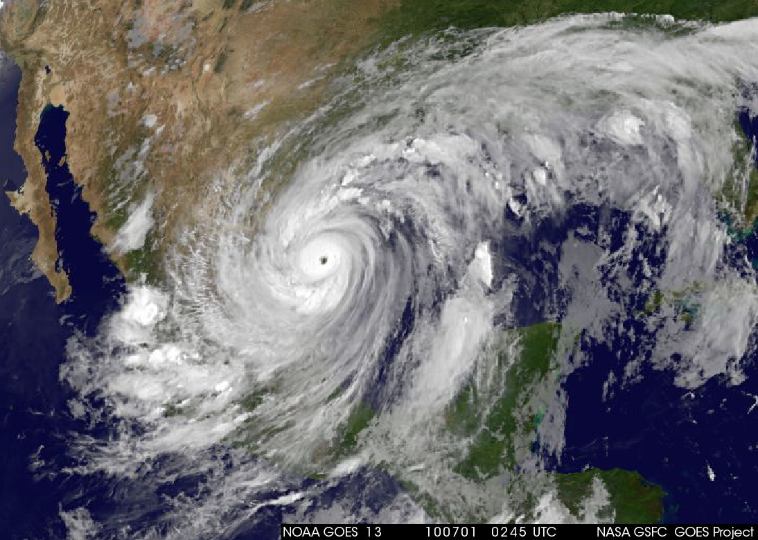 Hurricane Alex near peak intensity making landfall in July 1